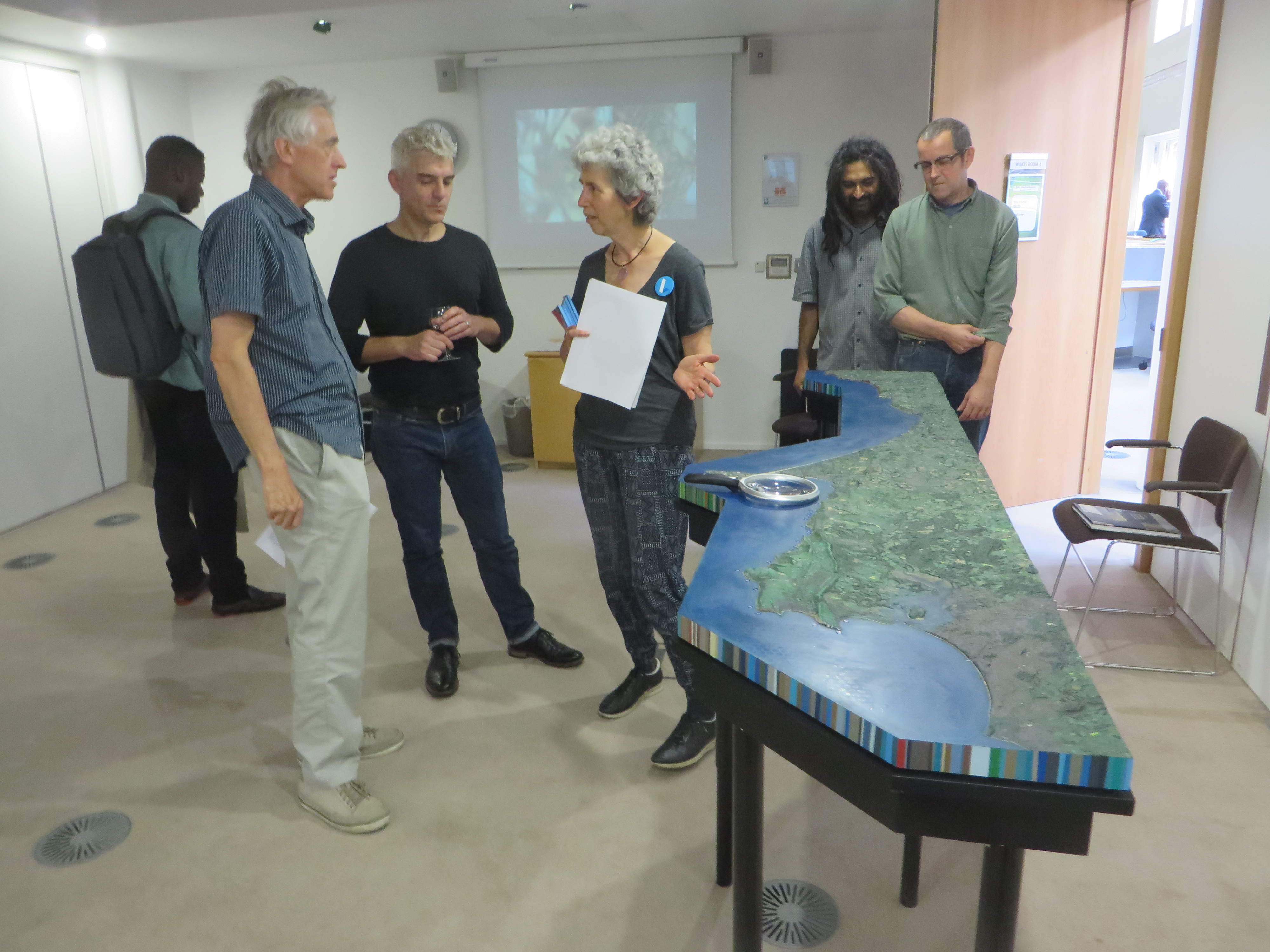 The artist Jeremy Gardiner with his exhibit of the Jurassic Coast at the V&A Digital Futures (organized by the Victoria and Albert Museum), part of the EVA London 2016 conference, held at the British Computer Society offices in London, England, 11 July 2016.